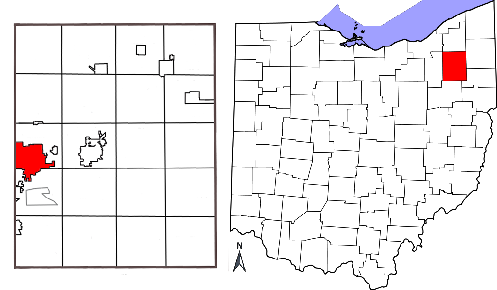 Combination map showing location of Kent, Ohio within Portage County and Portage County's location within the state of Ohio. Original map of Ohio by David Benbennick; map of Portage County with Kent highlighted made by Jon Ridinger.